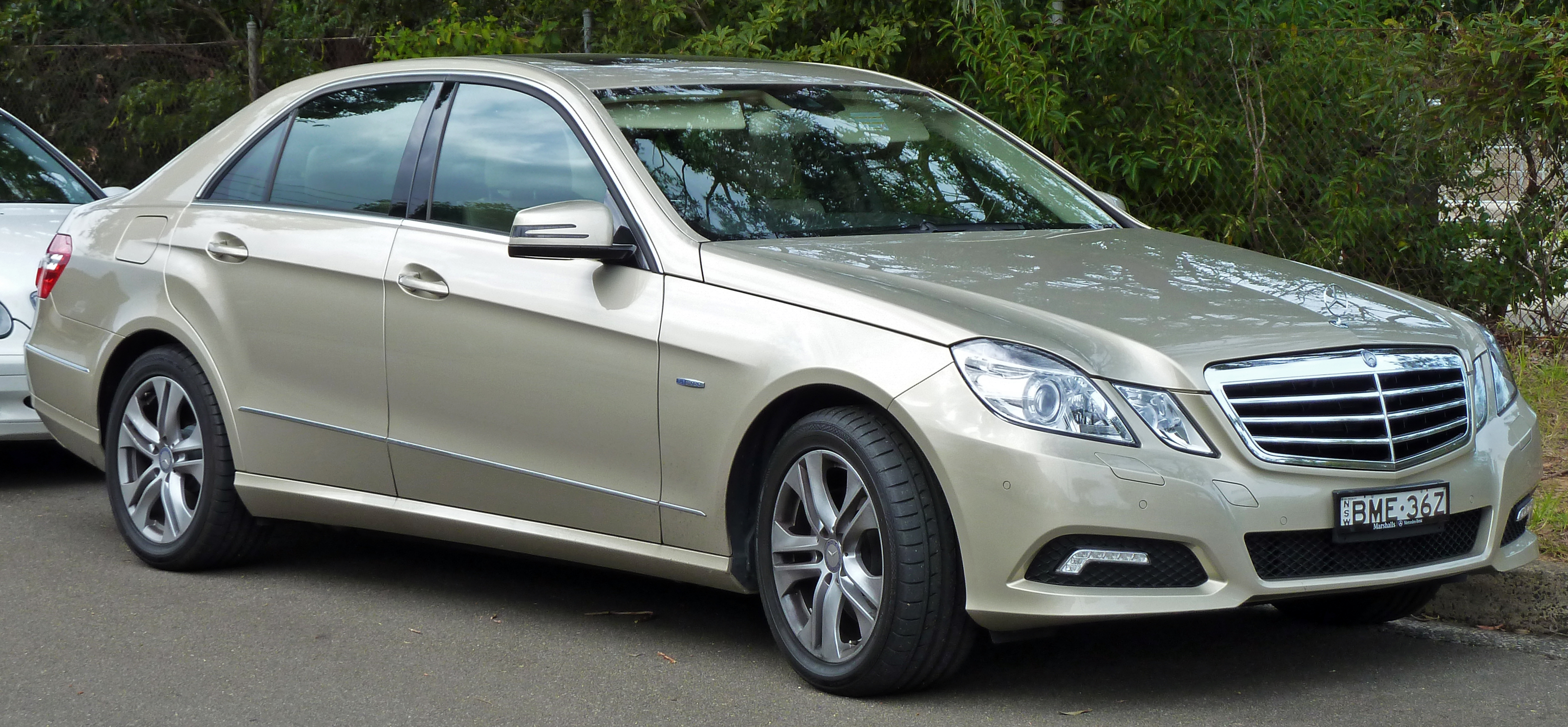 2009 Mercedes-Benz E 250 CGI (W 212) Avantgarde sedan. Photographed in Kirrawee, New South Wales, Australia.